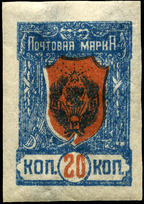 Russia Far Eastern Republic 1921, Chita issue. 20 kop. mint Printed: in Chita Paper: Waxy paper, without varnish Date of issue: November-December 1921 Period of use: December 1921 - 1924 Usage area: Southern Primorsk oblast, after October 1922 Eastern Siberia Number issued: 400,000 Catalogue number: Sc. 56